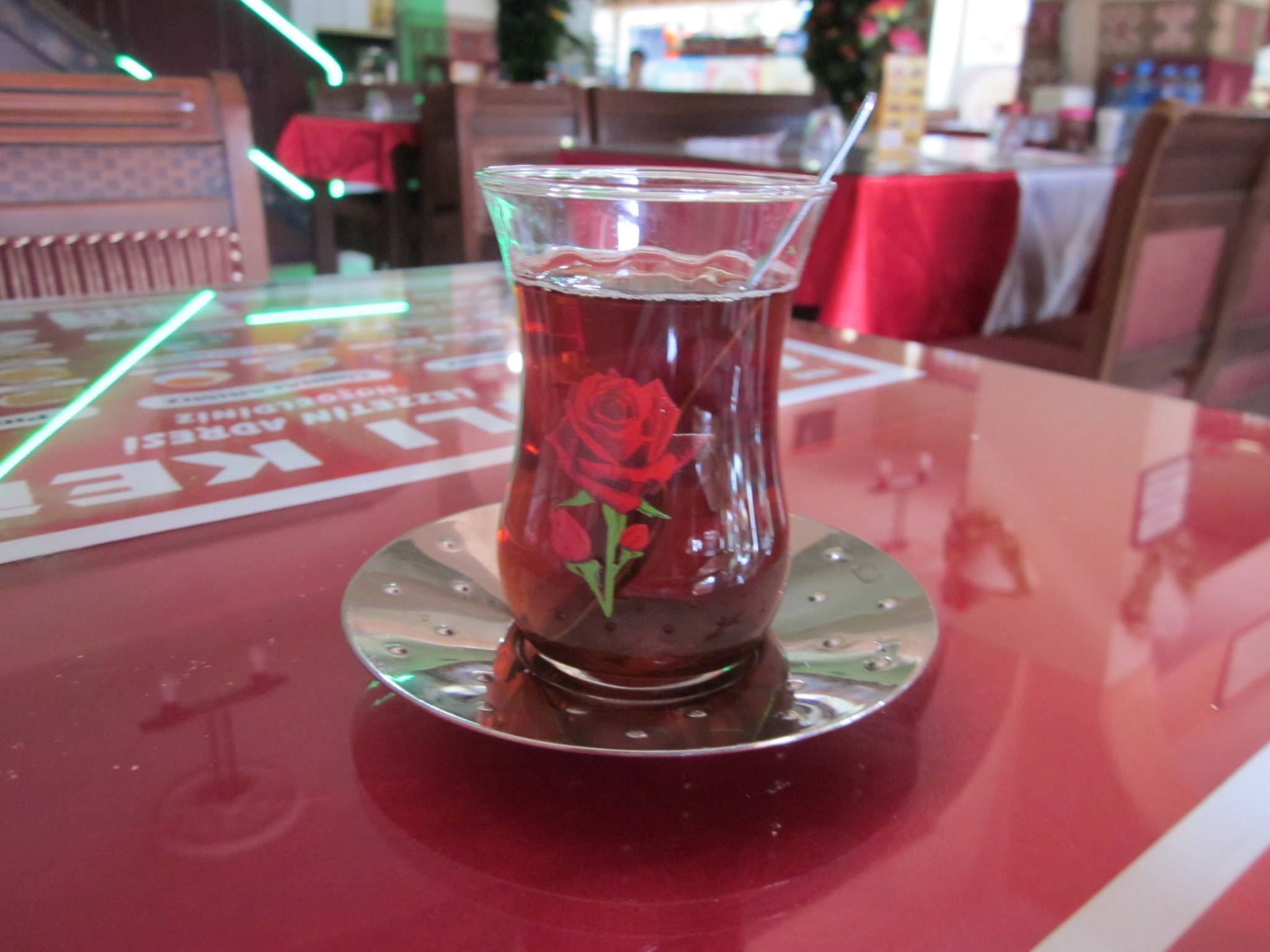 Red tea This is an image of food from Tunisia